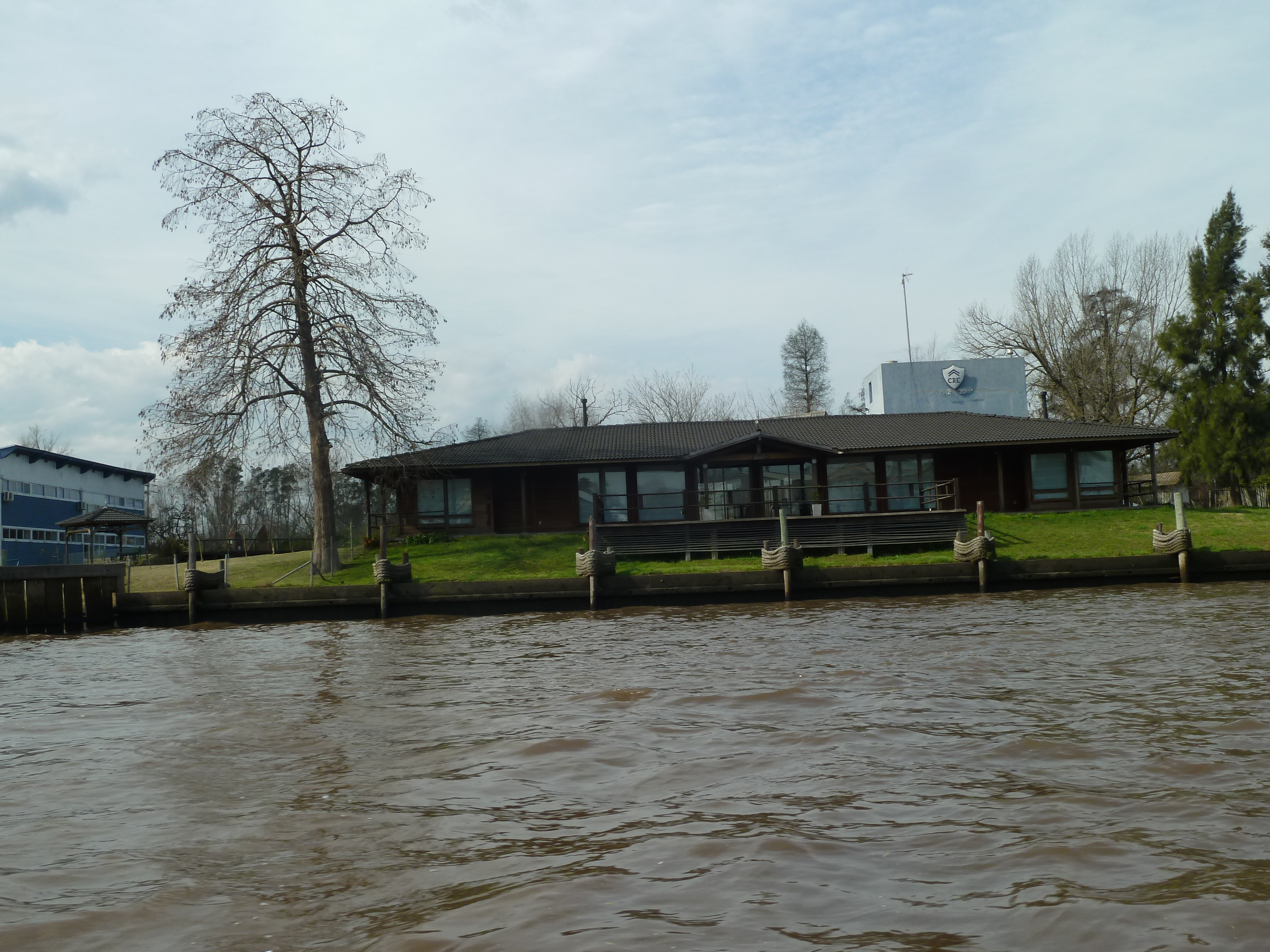 Club de Remeros Escandinavos - El Tigre - Buenos Aires - Argentina